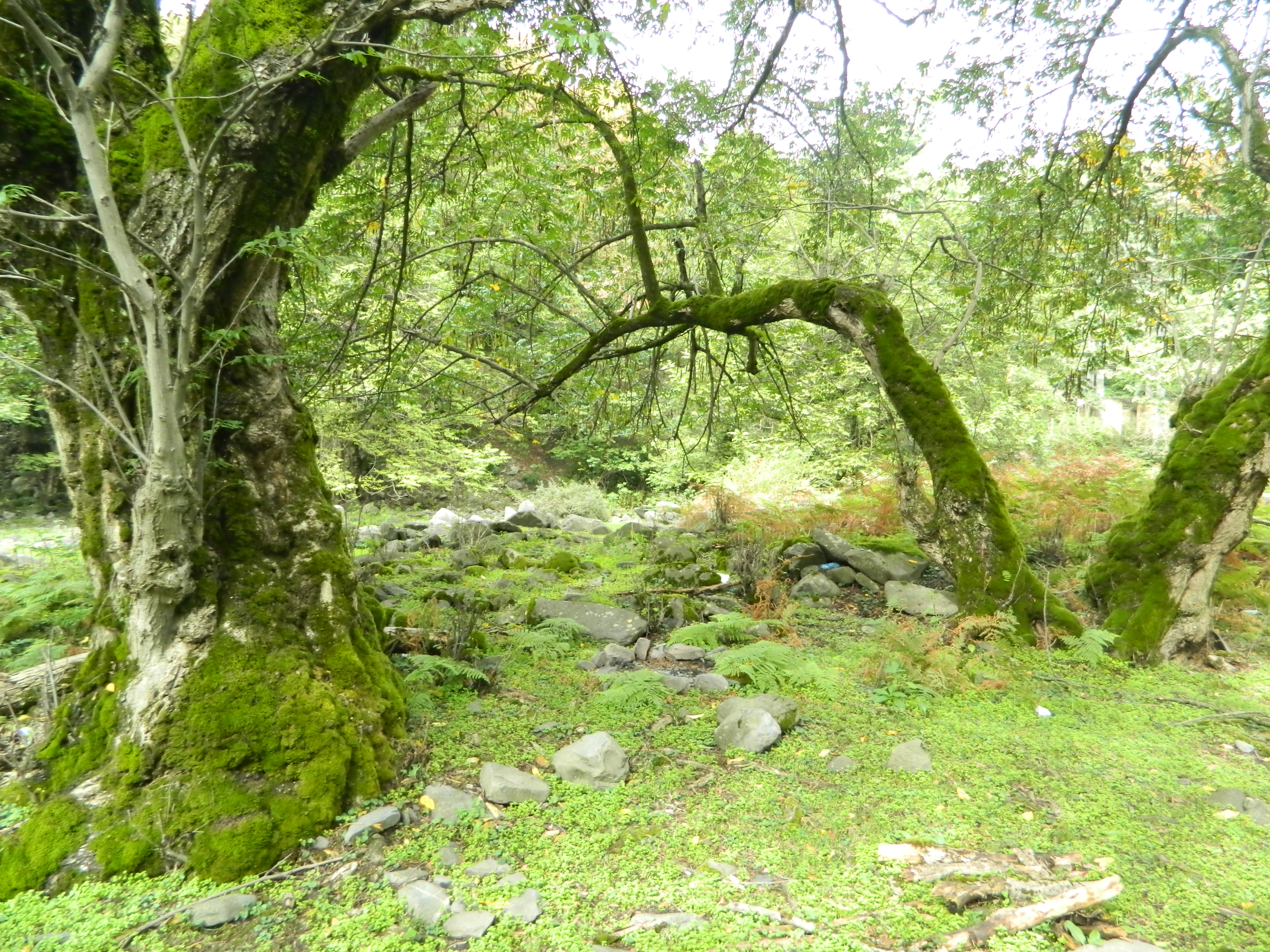 While our 2 days trip to Zaqatala, we have stayed in a tent for a night then traveled around some villages. I was astonished by the beauty of these places and how green they were. This was below the mountain in the village of "Car". The trees were next to the river coming from the mountain (if I am not mistaken). I have not filtered the picture. 7